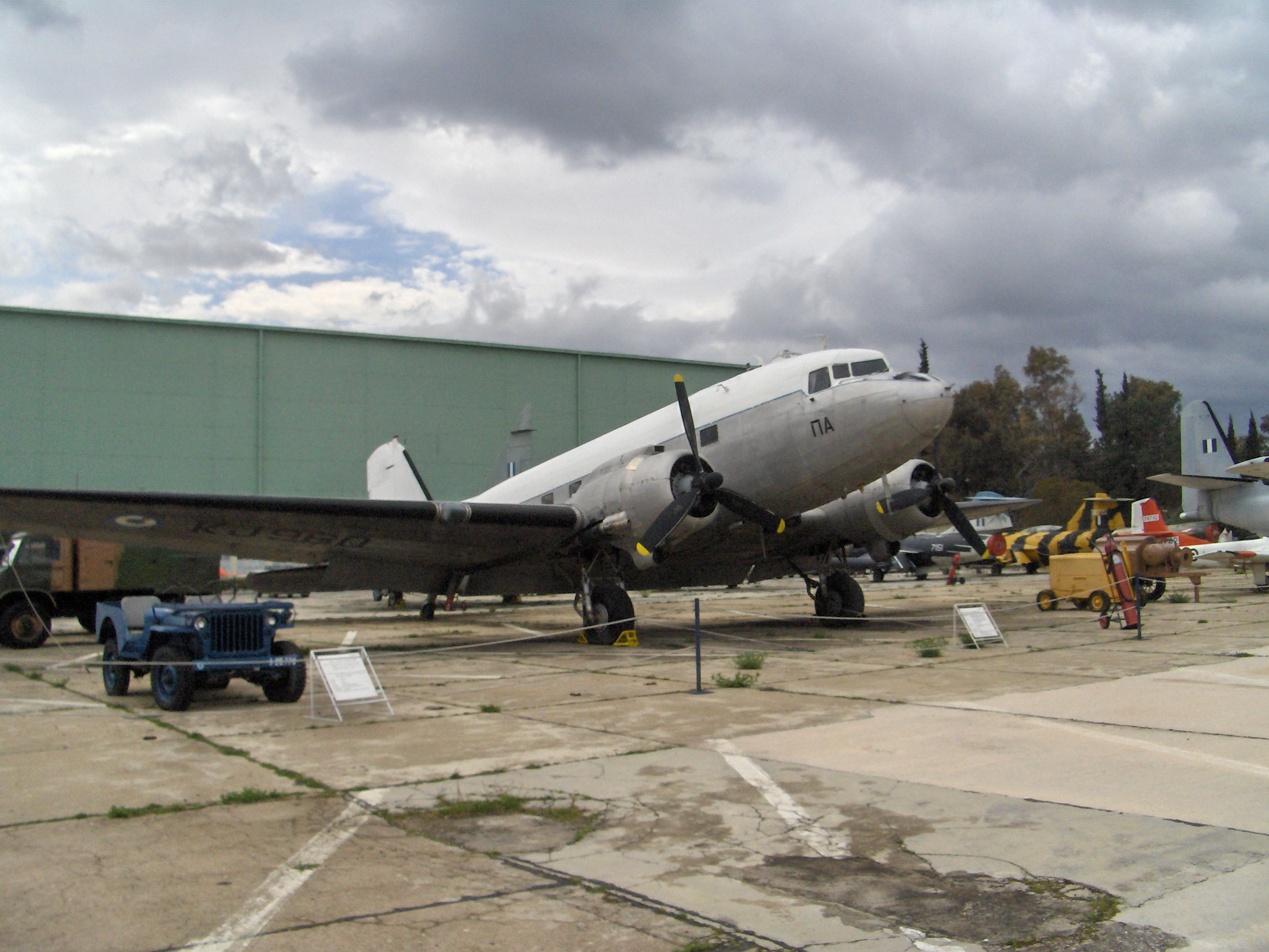 Exhibit at the Hellenic Air Force Museum at Dekelia (Tatoi), Athens, Greece.